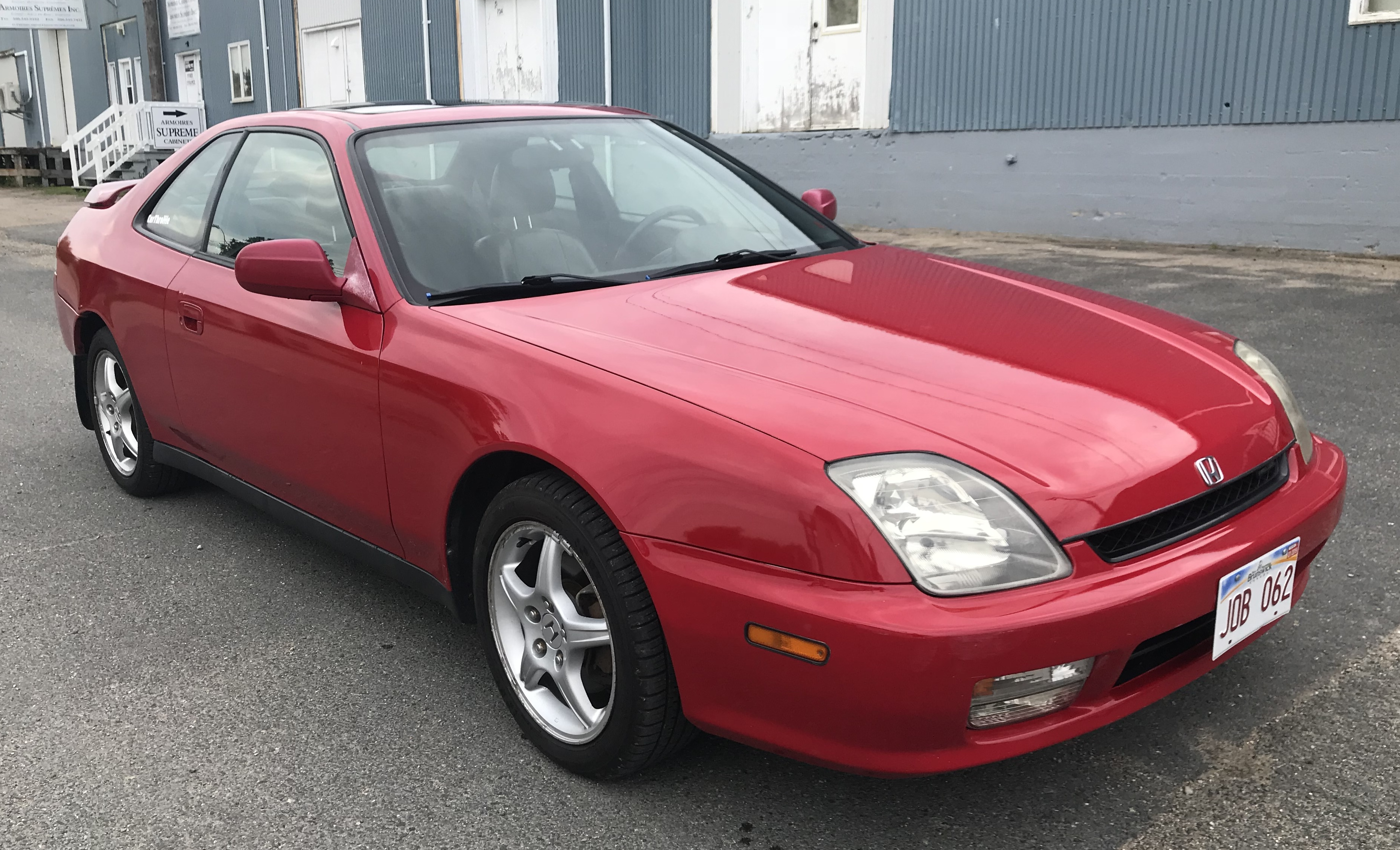 Canadian market 2001 Honda Prelude SE with five speed manual transmission.